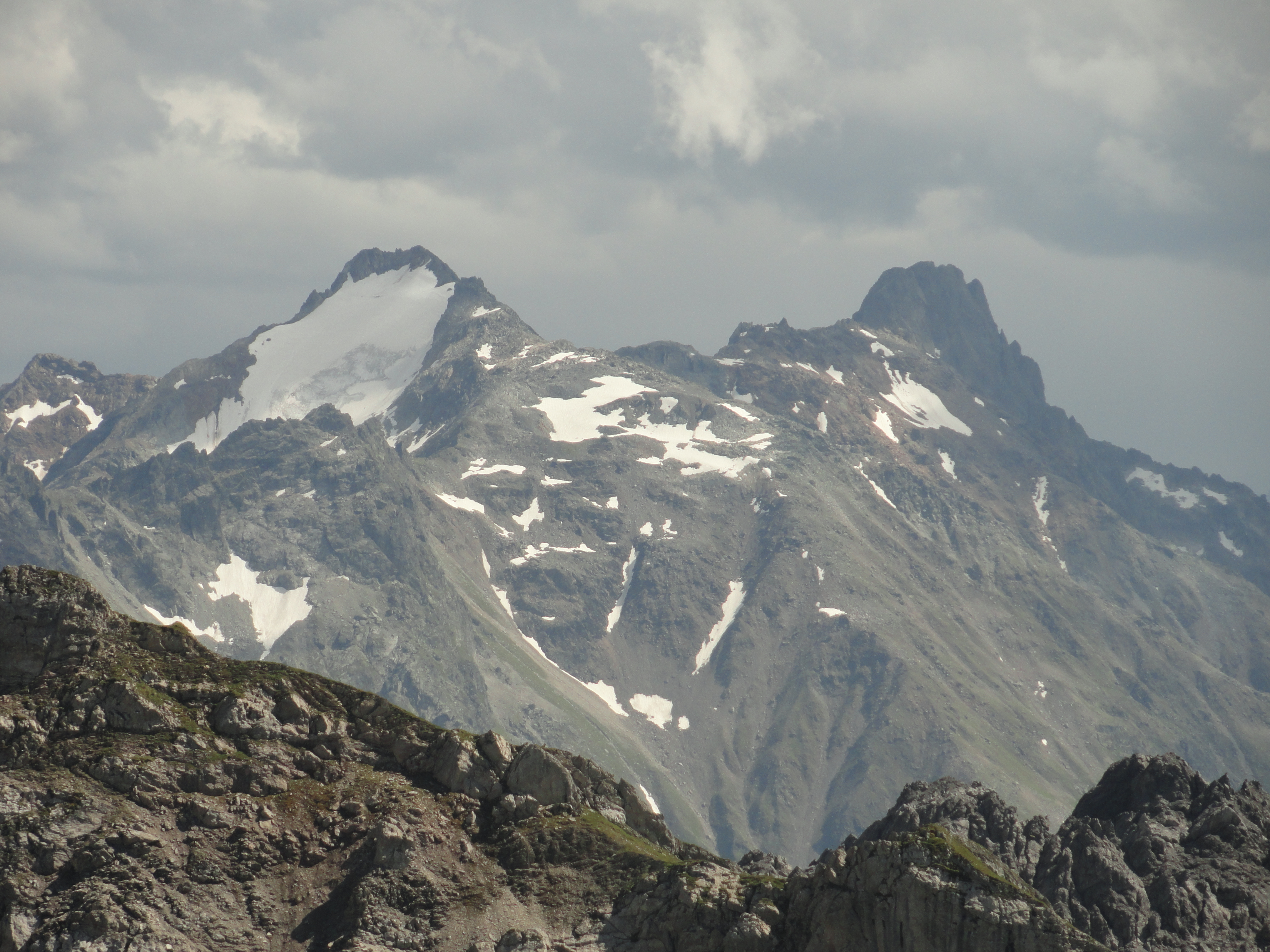 Kaltenberg, Pflunspitzen, Satteinser Spitze from N (Roggalspitze)